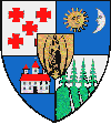 Coat of arms of Harghita County, Romania.